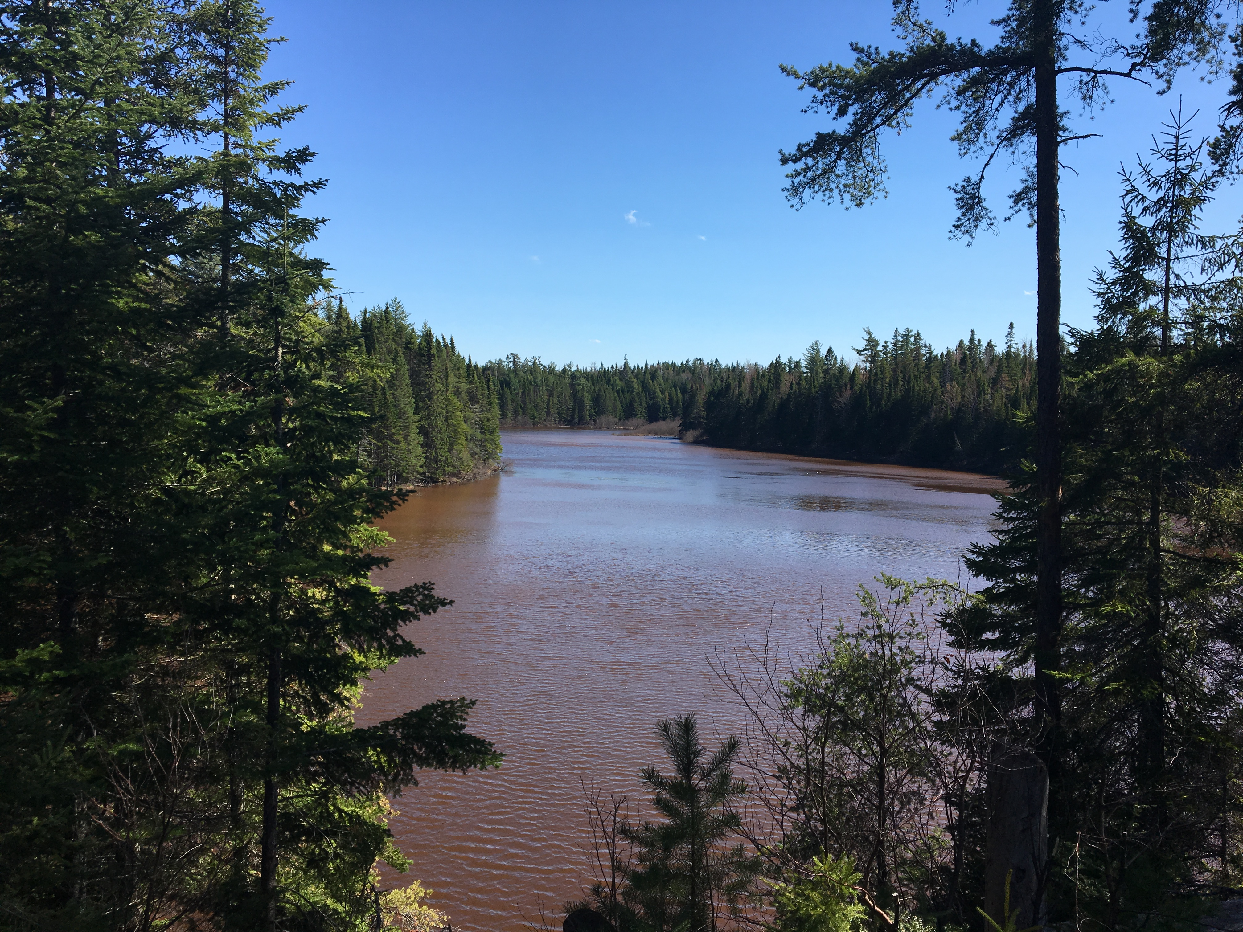 Reservoir in the Mill Creek Nature Park in Riverview, New Brunswick, Canada.